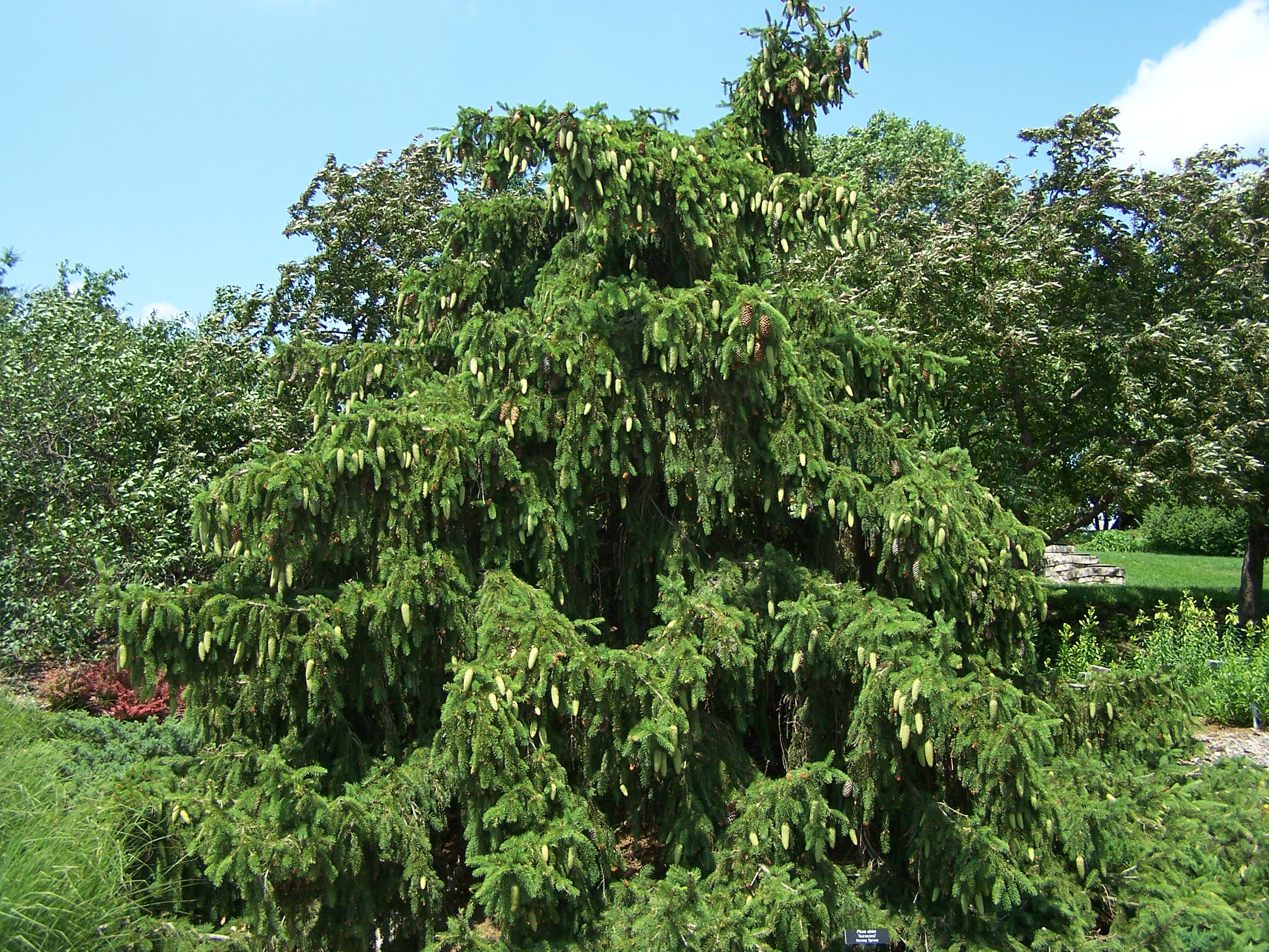 Picea abies 'Acrocona' Norway Spruce at Minnesota Landscape Arboretum